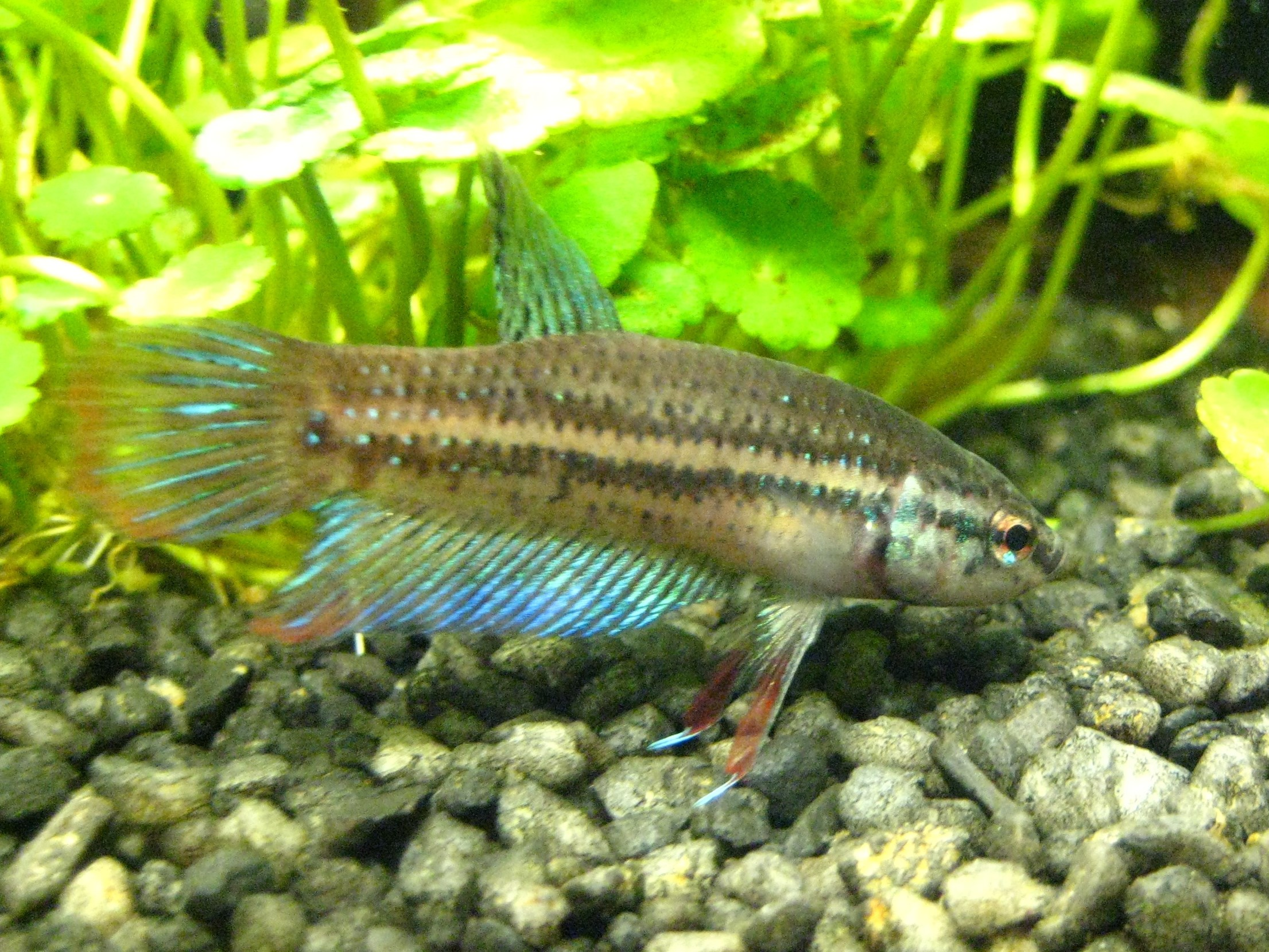 Betta imbellis (male)